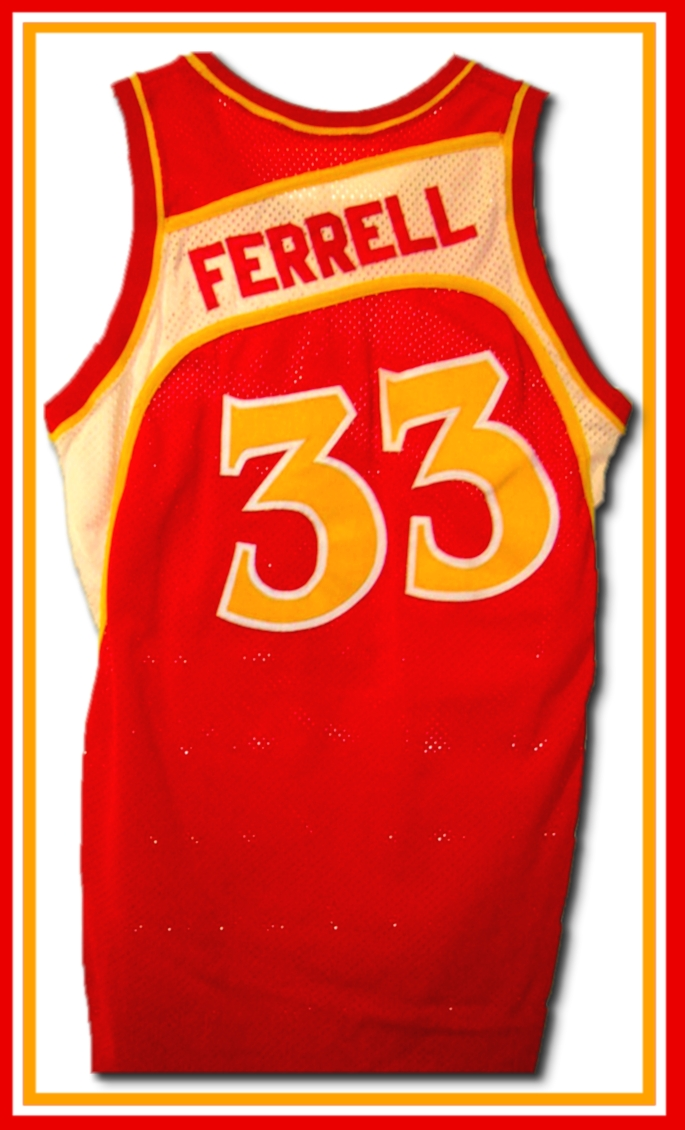 Duane Ferrell Atlanta Hawks away uniform from 1988. The Hawks wore the stylized red and gold uniforms from 1982-1992. This authentic jersey is made by Sand Knit and was worn by Ferrell during the 1988-89 season.The photograph was taken from my sports memorabilia collection with a Nikon Coolpix e3200 digital camera and edited using ArcSoft PhotoStudio 5.5